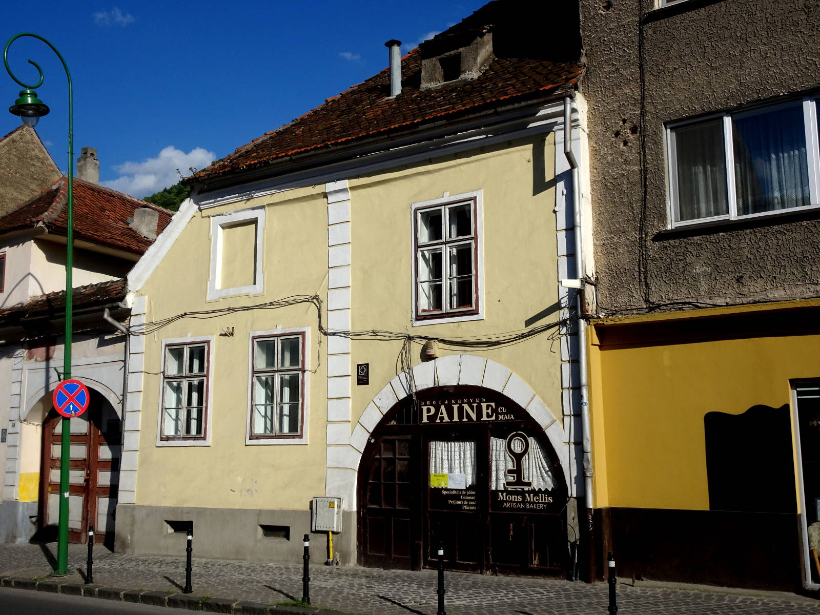 House in Bălcescu street, Brașov